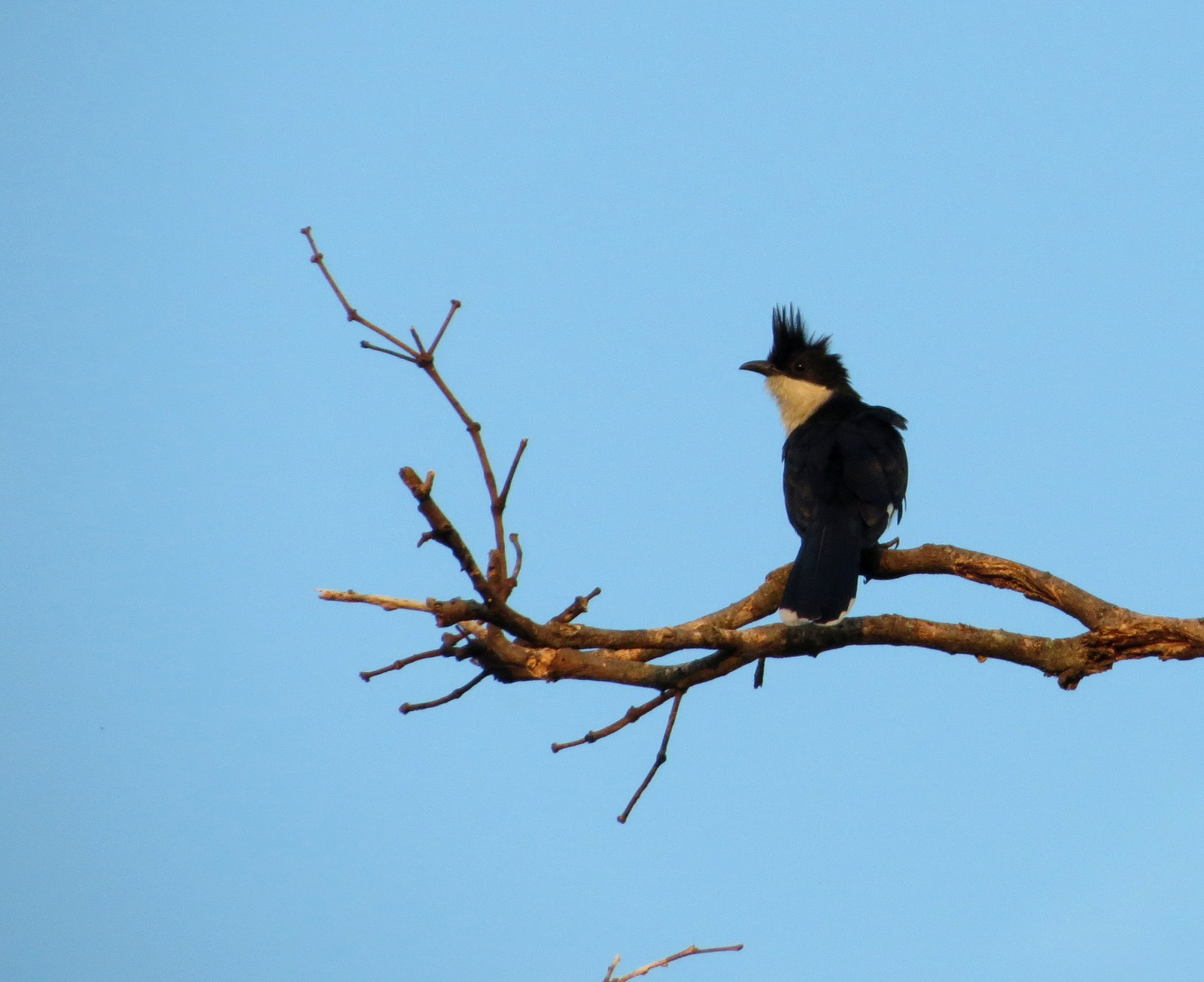 Clamator jacobinus seen in Bheemeshwari CAuvery WLS